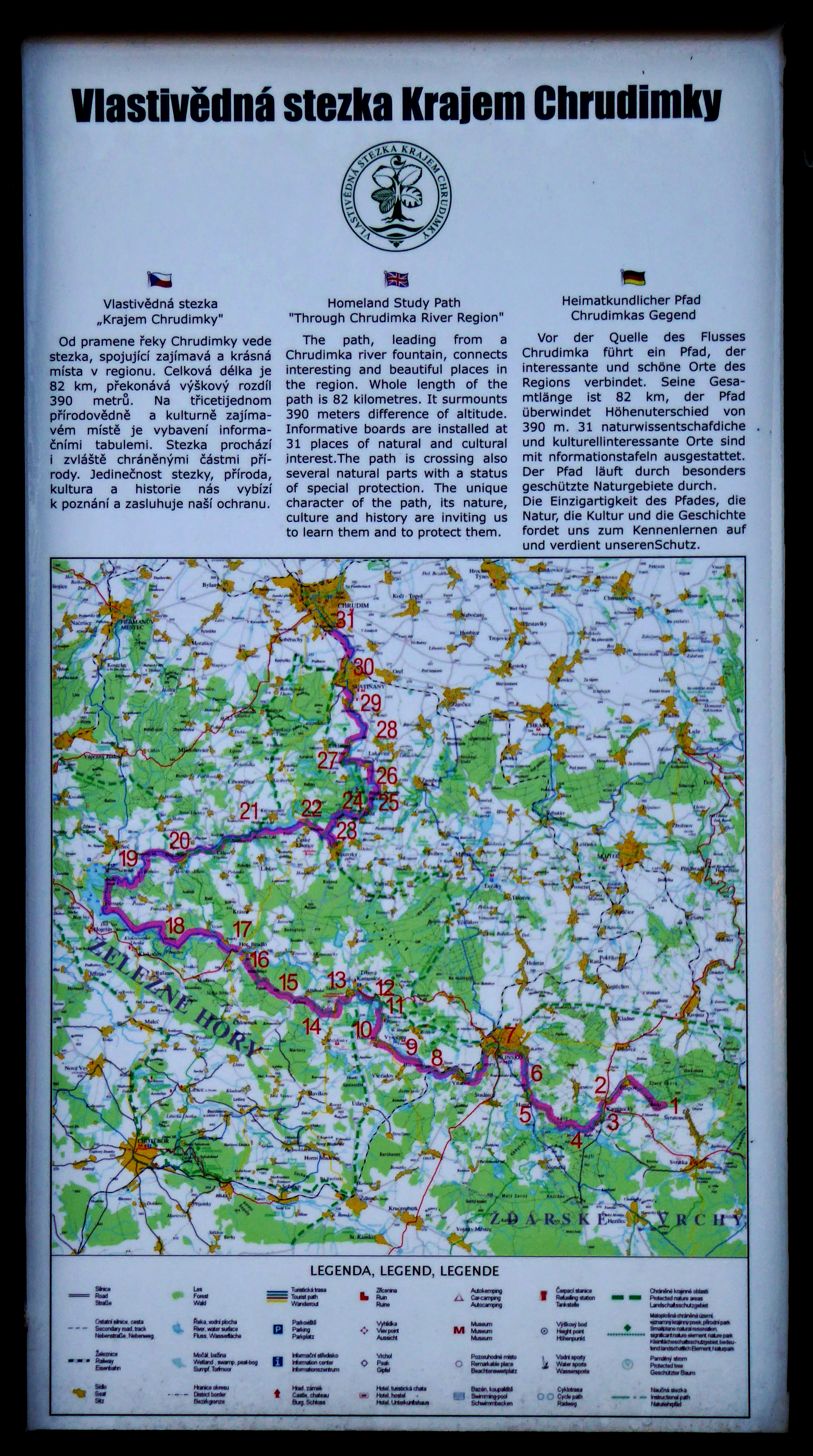 Homeland trail of the Region of Chrudimka River. The nature trail of a geographical character in the landscape with the river Chrudimka leads from the source of the river below the highest peak of the Iron Mountains, named "U oběšeného" (737.4 m above sea level), to the town of Chrudim, from which the name of the river was derived. The trail is part of several hiking routes of the Czech Tourists Club, in the upper flow of the river Chrudimka leads in the "Žďárské" Hills Protected Landscape Area and from the town of Trhová Kamenice in the Iron Mountains Protected Landscape Area. On the homeland trail is a total of 31 nature study and cultural places, the total length of the trail is 82 km with the altitude difference of 390 meters. Photo location: Czechia, Pardubice Region, town Hlinsko, "Tylovo" square, spot number: 7 – the town Hlinsko.